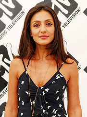 Ambra Angiolini